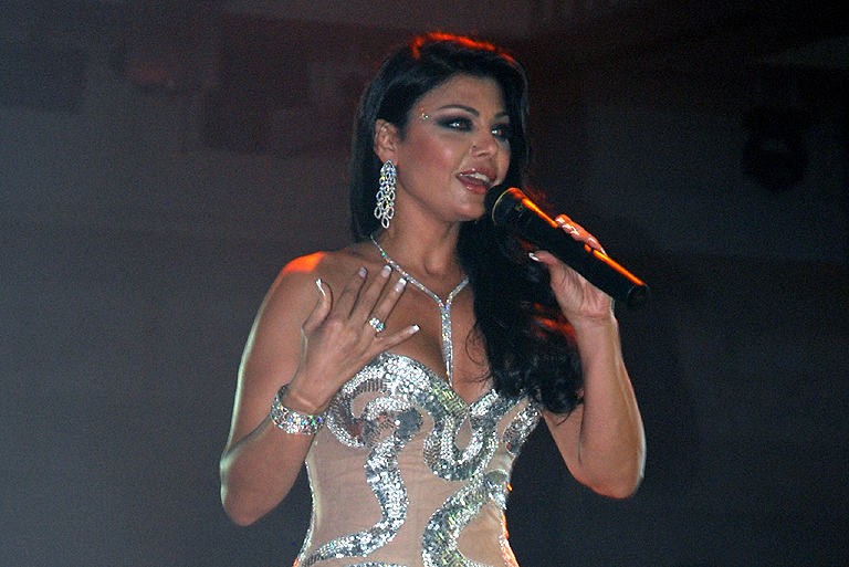 Haifa Wehbe, Live in Cairo